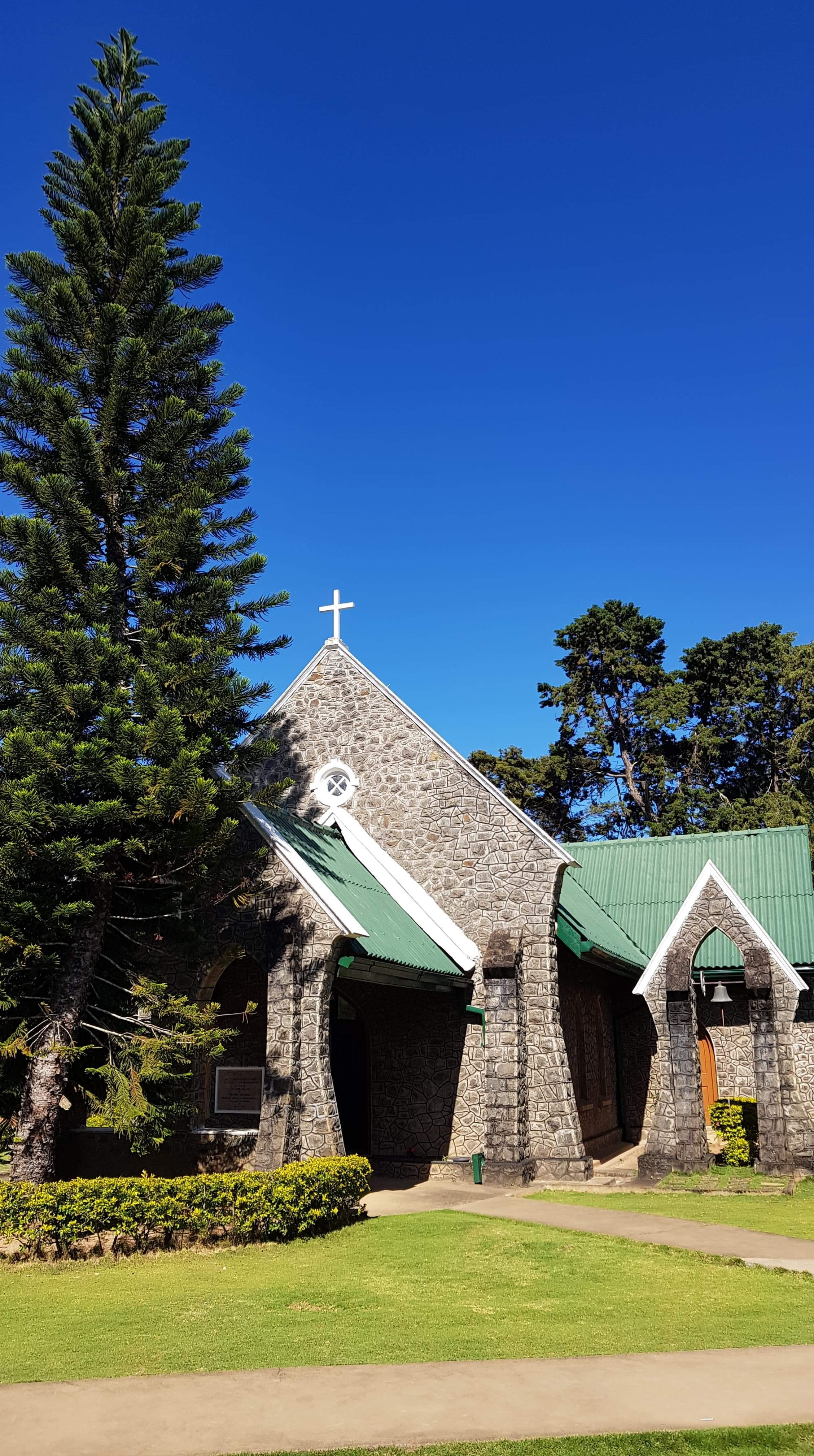 College Chapel: The Chapel of Good Shepherd